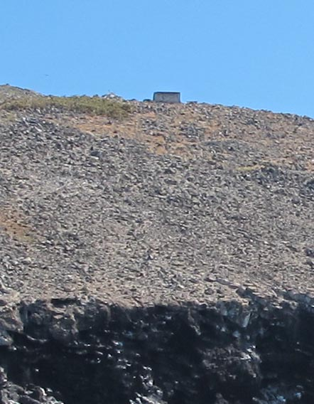 A small stone hut on the top of the island of Redonda remains from the days when guano was mined there. The sun is out in this shot.